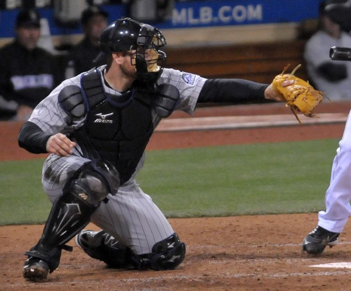 Chris Iannetta